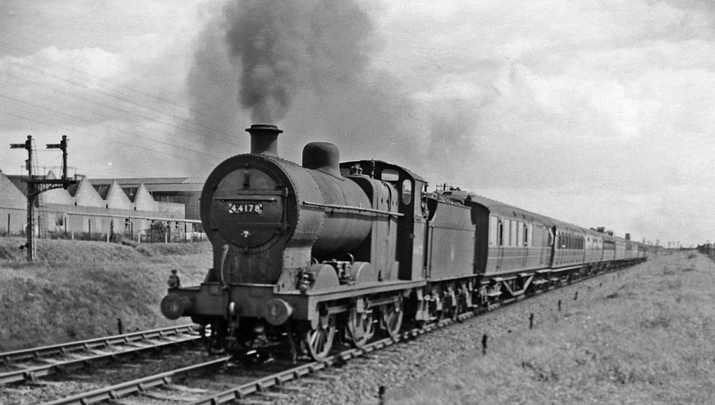 A holiday express returning from the East Coast on the Midland line north of Peterborough. View SE, towards Peterborough on the ex-Midland line from Peterborough (East and North) to Manton, Melton Mowbray, Leicester, Derby and Nottingham. The train is approaching Walton station, with the East Coast Main Line running parallel on the east side. This is the 10.37 Summer Saturday from Yarmouth (Vauxhall) to Leicester (London Road), which had until 1958 run on the more direct Midland & Great Northern route. The locomotive is LMS 4F 0-6-0 No. 44178. On the left is the large Brotherhood's factory